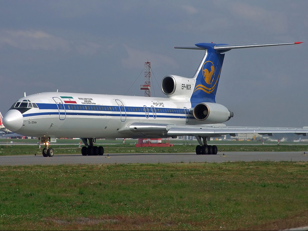 An Iran Airtour Tupolev Tu-154M at Sheremetyevo International Airport (SVO / UUEE)